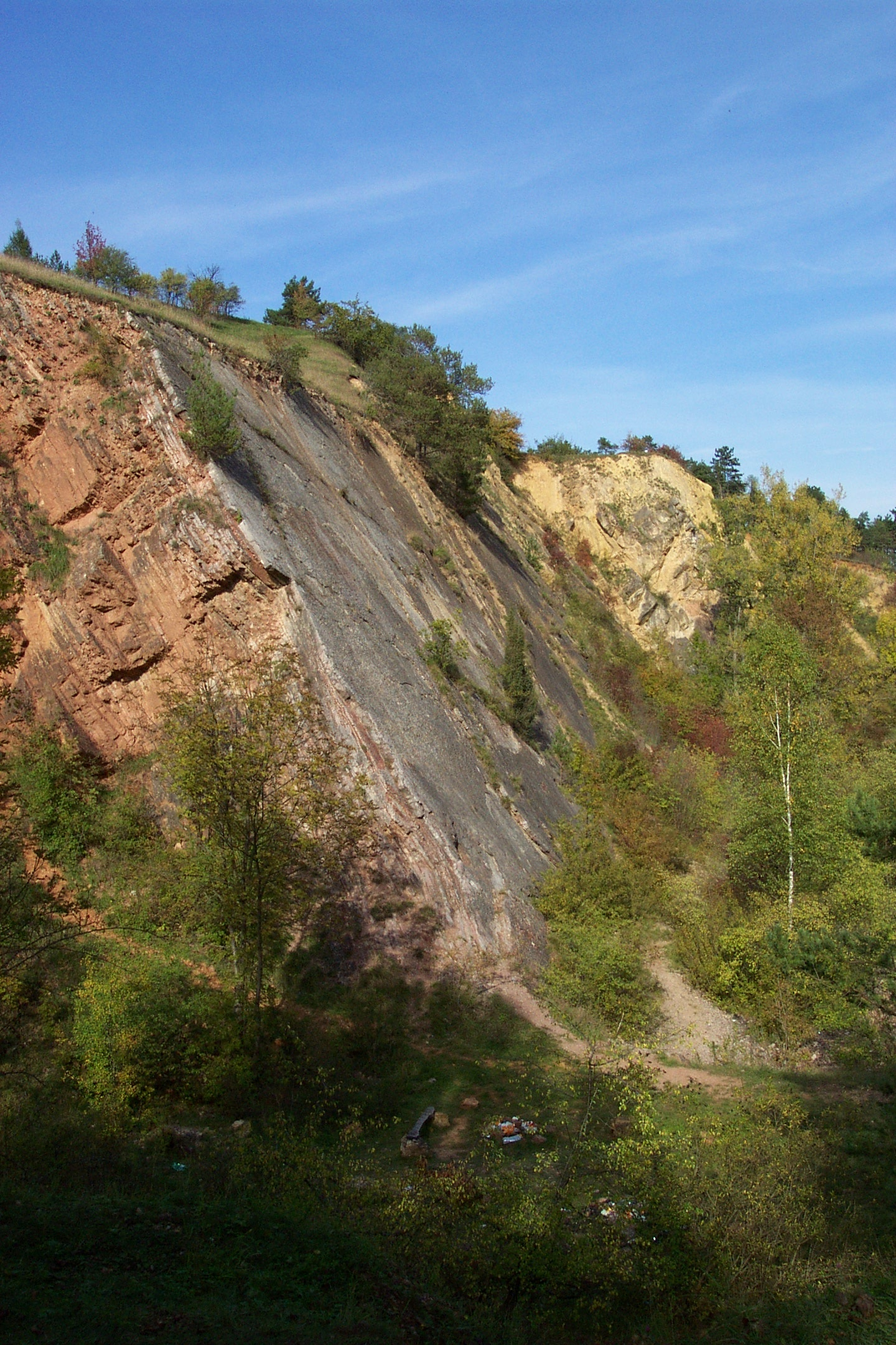 Opatřilka - Červený lom natural reserve in Prague, Jinonice (CZ)